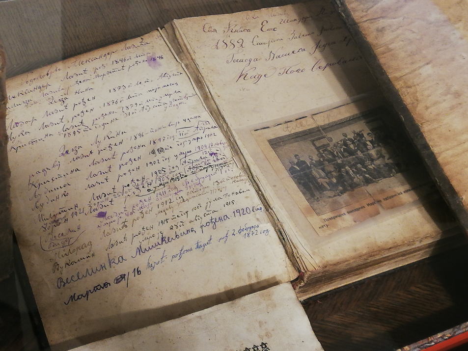 The genealogy of the Lazić family written on the Bible from 1871 (first edition printed in the vernacular of the Serbs with both the Old and the New Testament translation). It can be found in the Society for Culture, Art and International Cooperation Adligat in Belgrade, Serbia. Српски (ћирилица): Родослов породице Лазић исписан на Светом писму из 1871, првом издању спојеног Старог (превод Ђуре Даничића) и Новог завета (превод Вука Караџића) на народном језику. Налази се у Библиотеци Лазић, односно Удружењу Адлигат у Београду.